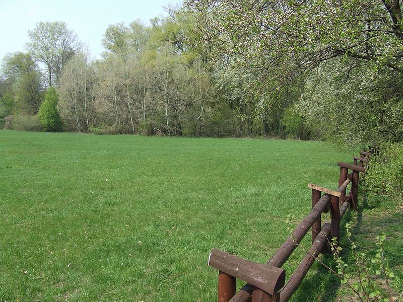 Warsaw, Mlociny forest park